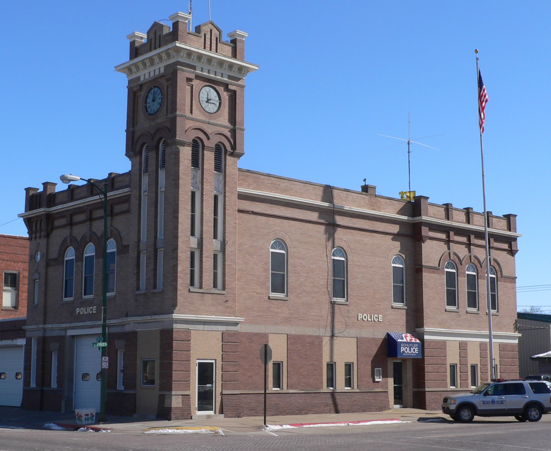 Schuyler City Hall in Schuyler, Nebraska; seen from the northwest. The building was constructed 1908, and is listed in the National Register of Historic Places.